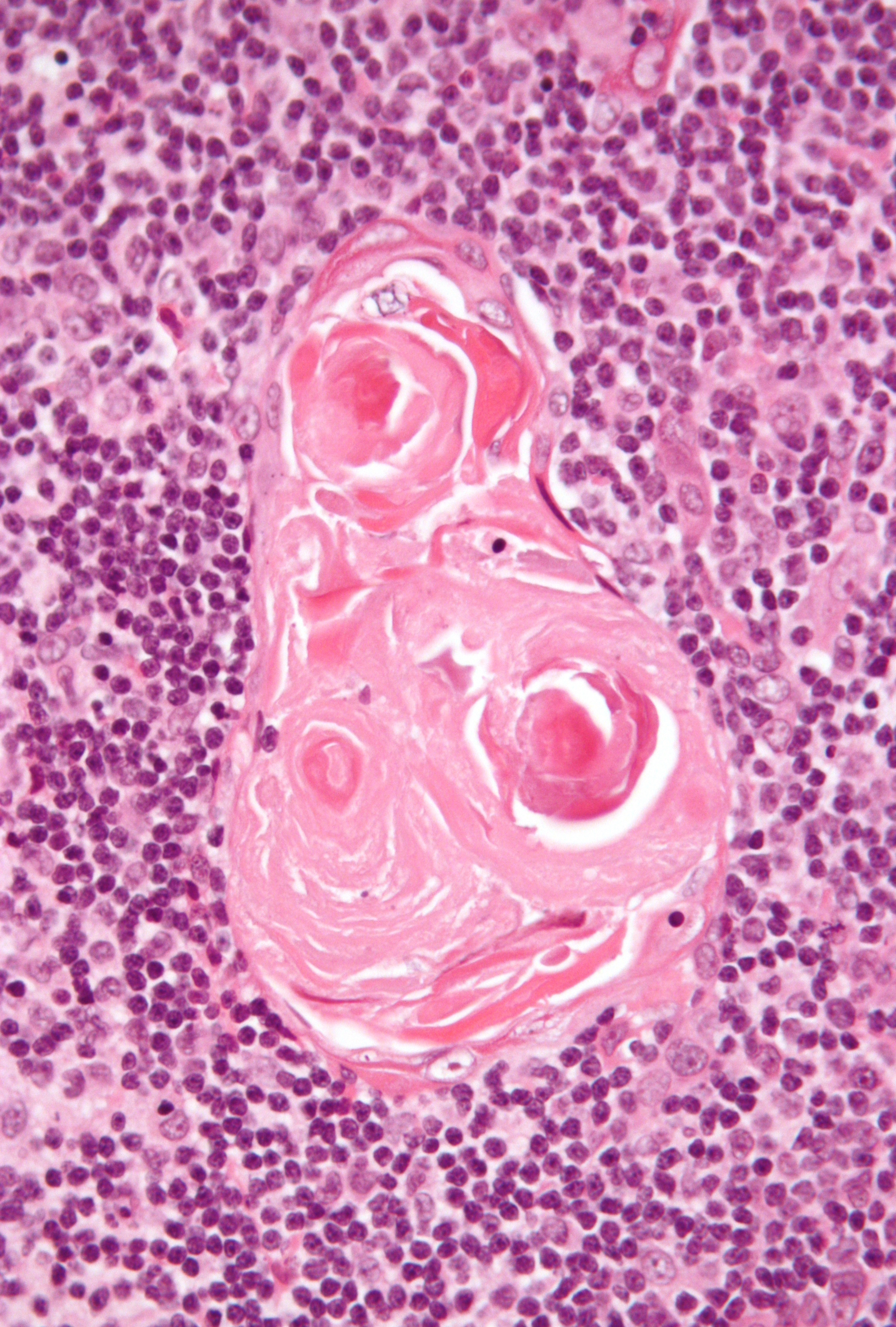 Micrograph of the thymus showing a thymic corpuscle (Hassall's corpuscle). H&E stain.